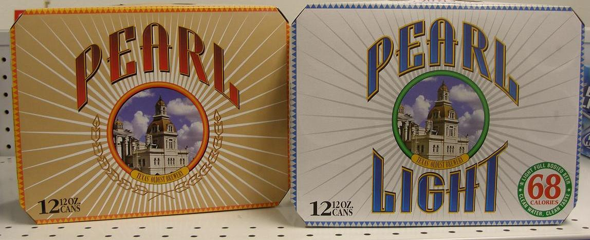 The current appearance of Pearl and Pearl Light cans. Both show the San Antonio brewery, even though the beer is no longer produced there.